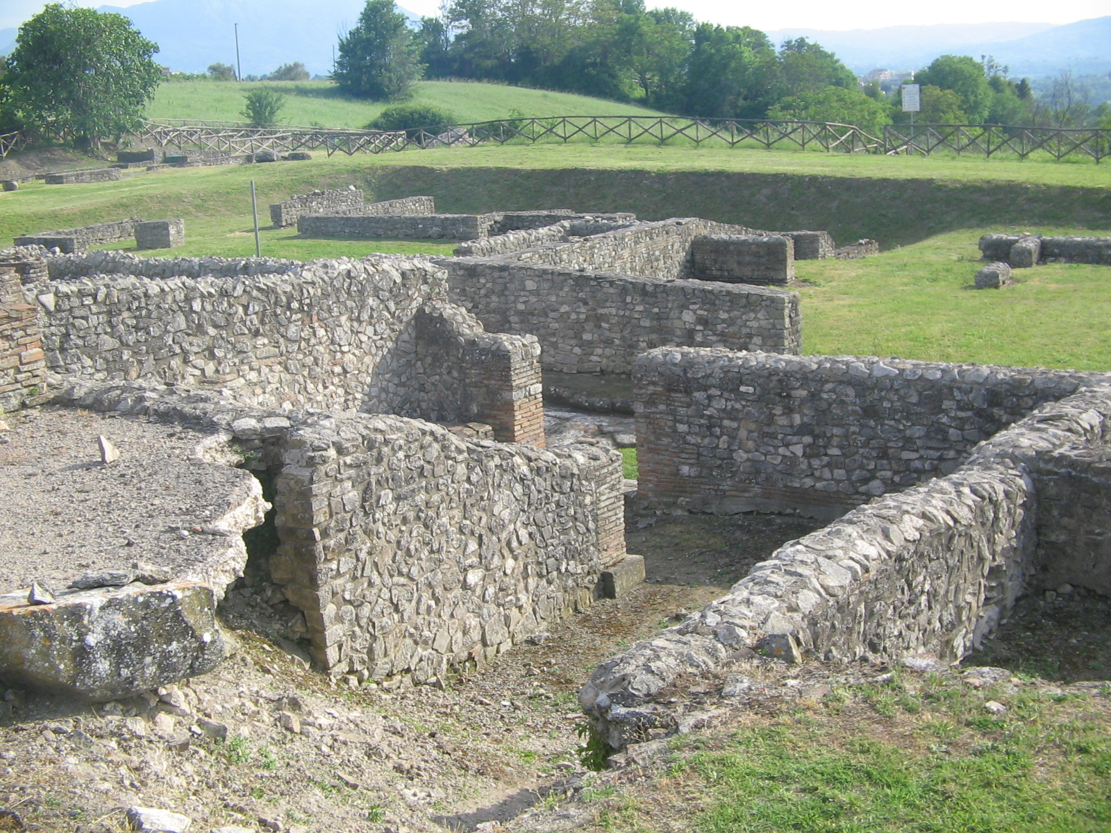 View of the ruins in the archaeological park of the Ancient Roman town of Aeclanum.